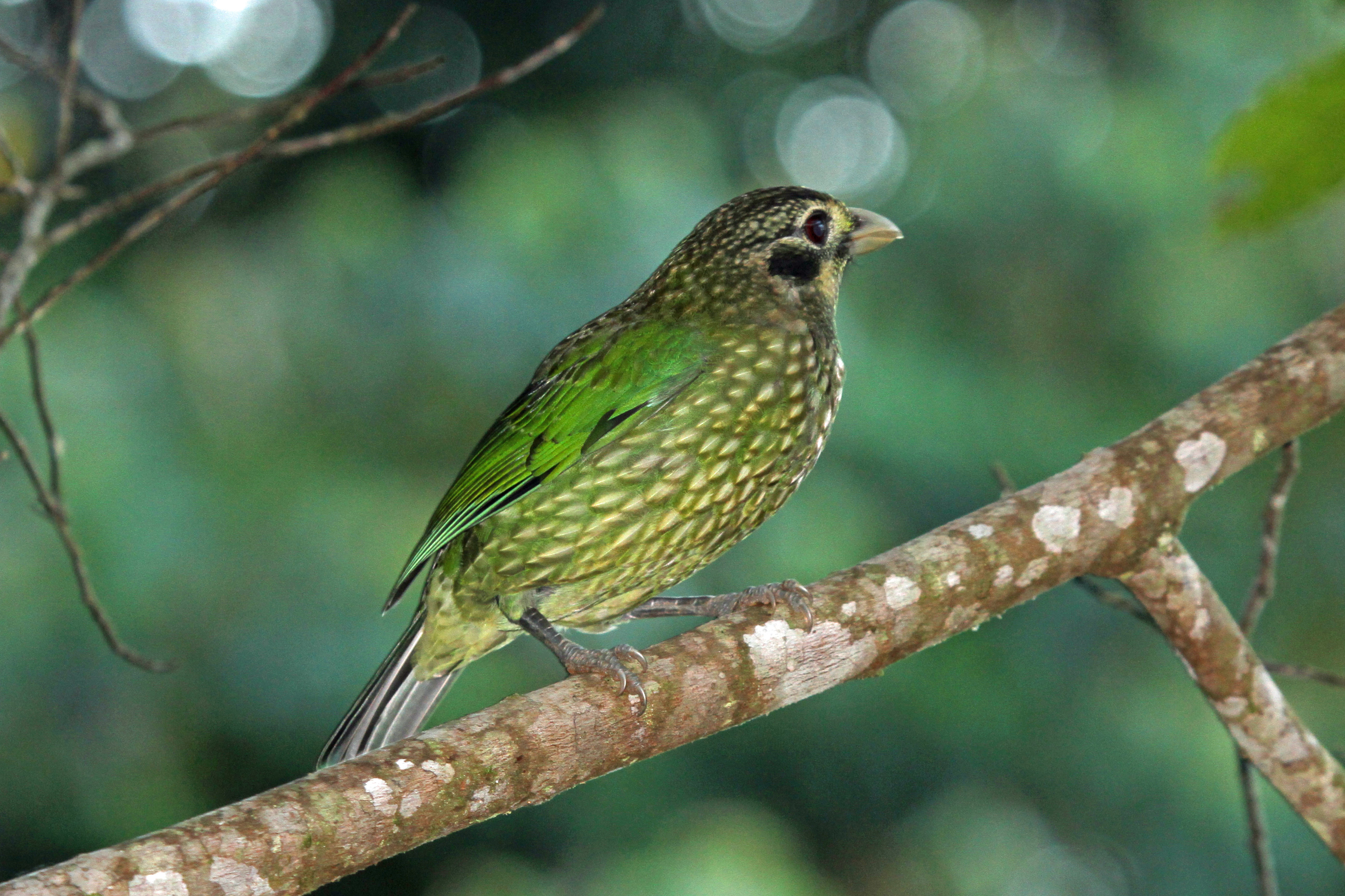 A Spotted Catbird in Daintree, Queensland, Australia.